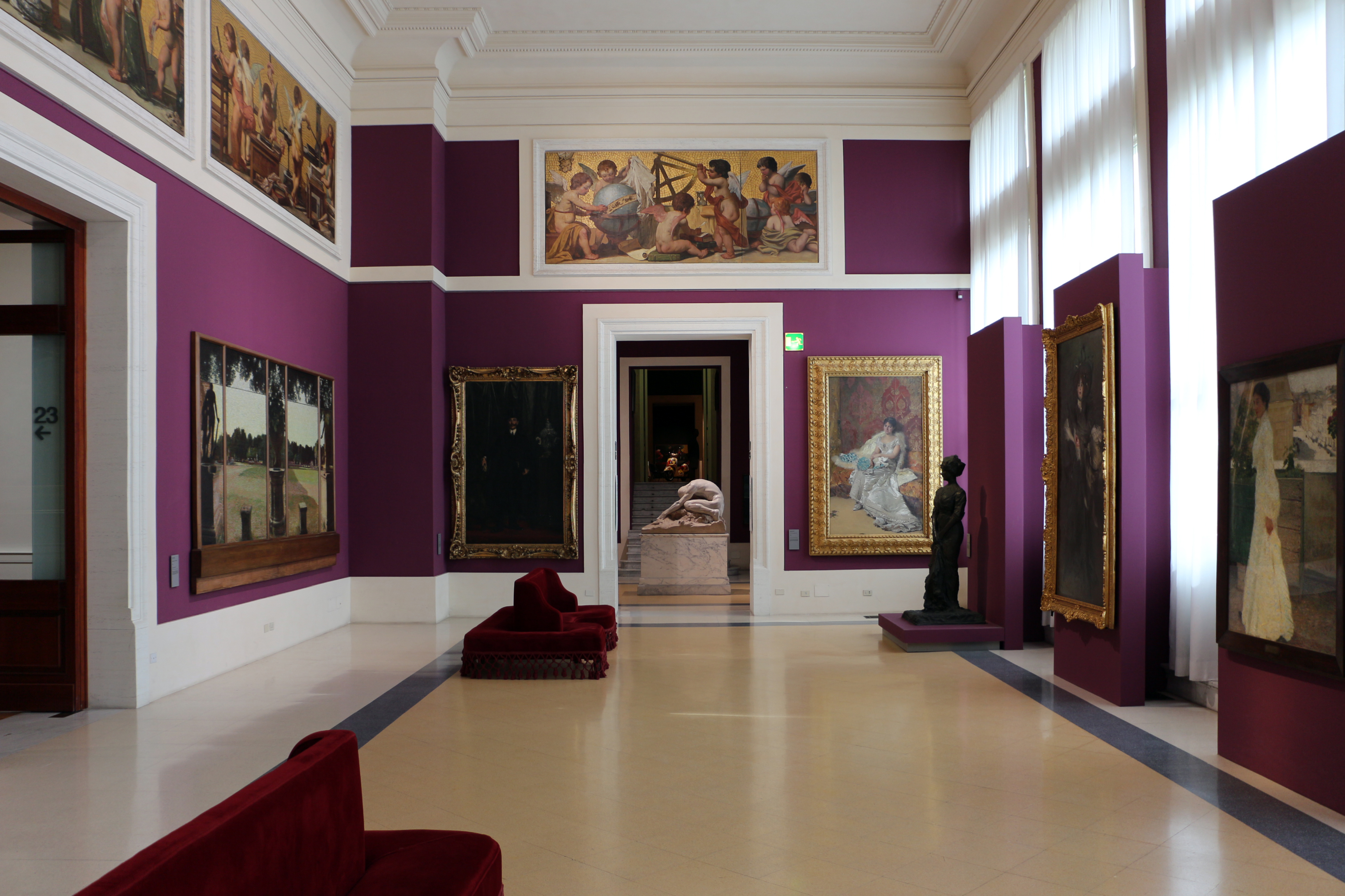 Galleria nazionale d'arte moderna (Rome)